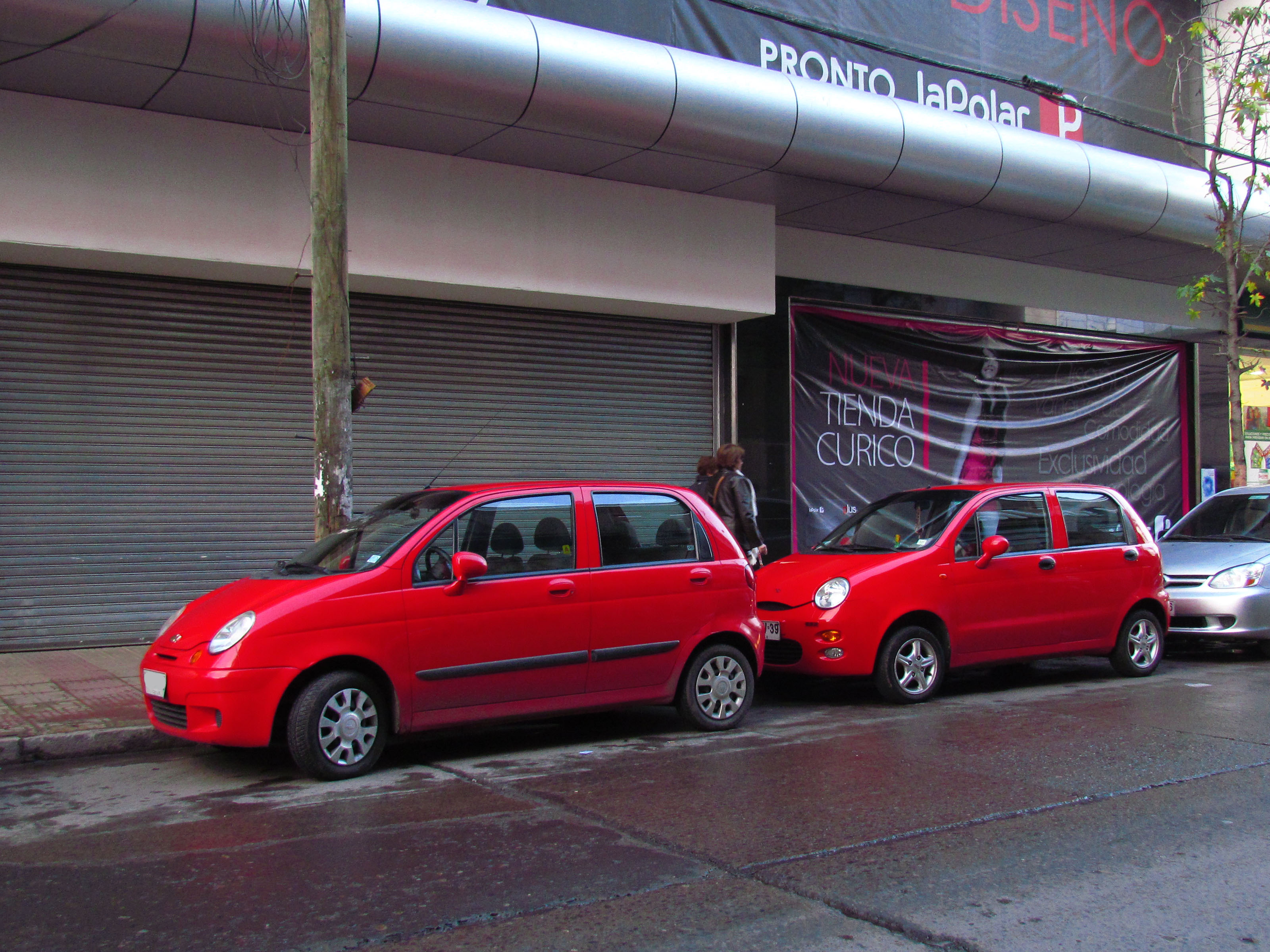 Chevrolet Spark 2005 & Chery iQ 2008